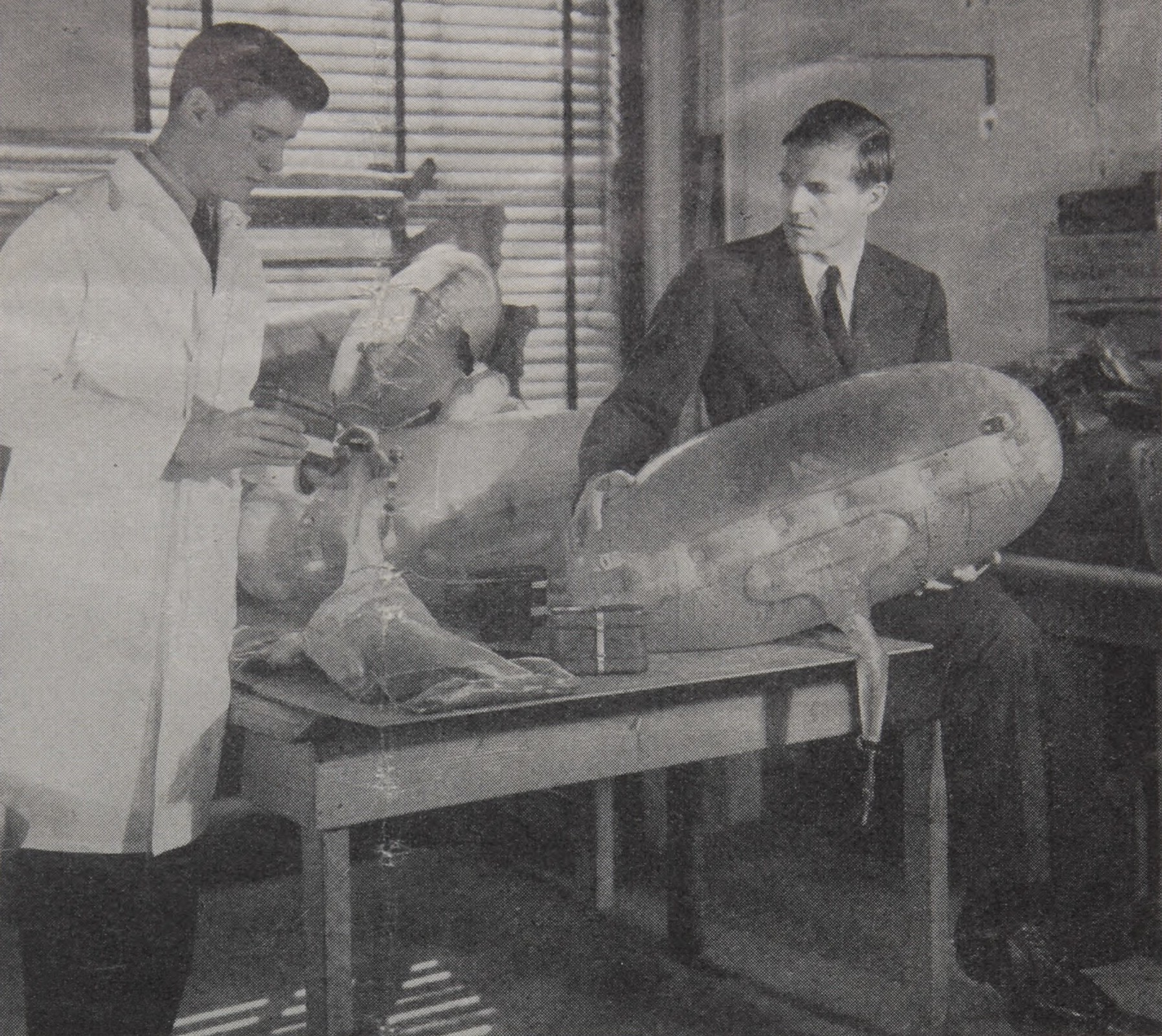 [Dartmouth Alumni Magazine article] by William H. Miller Jr 3